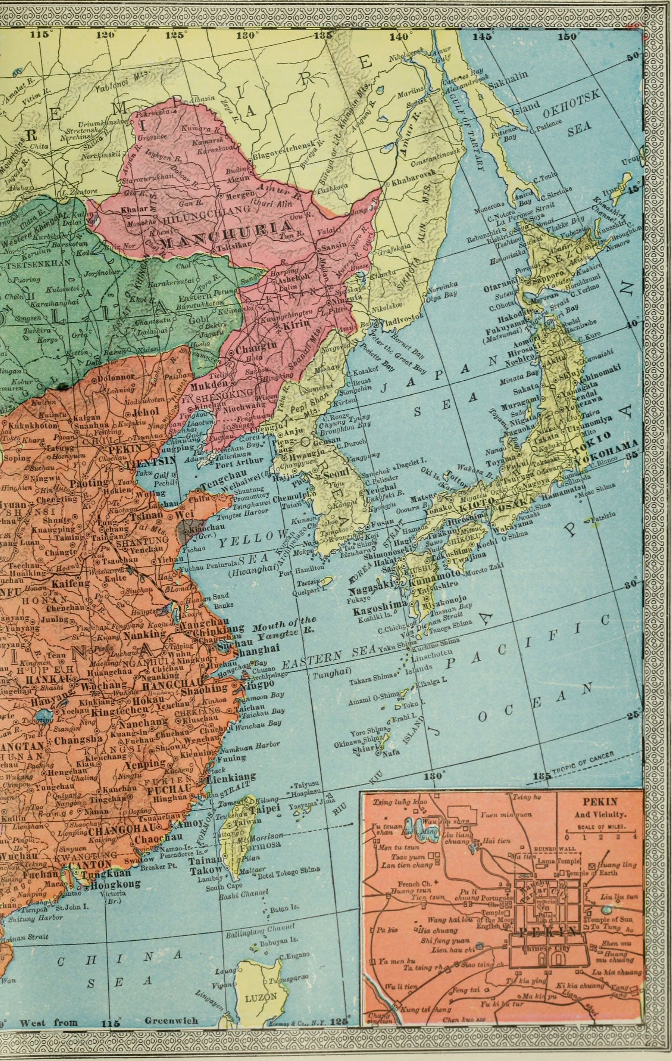 Title: The Americana : a universal reference library, comprising the arts and sciences, literature, history, biography, geography, commerce, etc. of the world Year: 1903 (1900s) Authors: Beach, Frederick Converse, 1848-1918 Rines, George Edwin, 1860- Subjects: Encyclopedias and dictionaries Publisher: New York : Scientific American Compiling Dept. Text Appearing Before Image: ' Text Appearing After Image: CHINA Mukden, Hei-lung-Kiang, and Kirin, the re-spective capitals of which are Mukden, Tsitsi-har, and Kirin. The total area is 280,000 squaremiles. Mongolia is the name given to the vaststretch of desert land which, interspersed withinfrequent oases, stretches across the greaterpart of the north of China along the Siberianfrontier. A large part of its area of 1,288,000square miles is taken up by the Gobi desert.The population is almost entirely nomadic. Thechief town is Urga. Eastern or Chinese Tur-kestan is a mountainous region lying betweenthe western tract of the Gobi desert and thePamirs, and enclosed north and south by theranges of the Tian-Shan and the highlands ofCashmere and Tibet. It possesses an area of431,000 square miles. The principal towns areKashgar and Yarkland. Sungaria or Dzun-garia, the smallest of the tributary states ofChina, lies to the northwest of Turkestan, onthe banks of the Hi River, at the junction ofMongolia, Turkestan, and the Russian provinceof Semipala